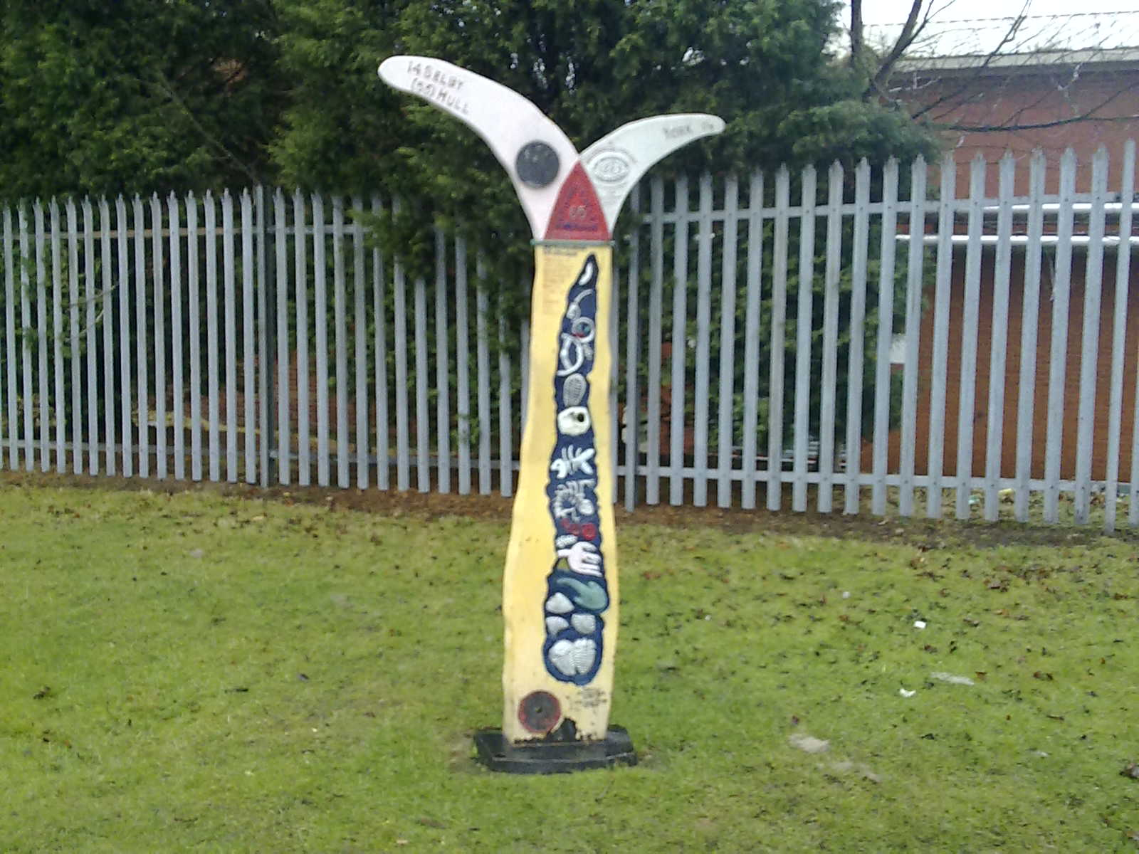 UK National Cycle Network Milepost ref MP99, Terry's Mound, York Racecourse